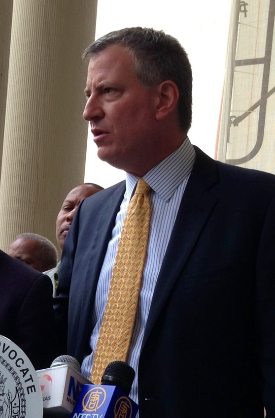 NYC Public Advocate Bill de Blasio announces 'Safe, Open City' plan to make New York City safer and more accessible for immigrants.